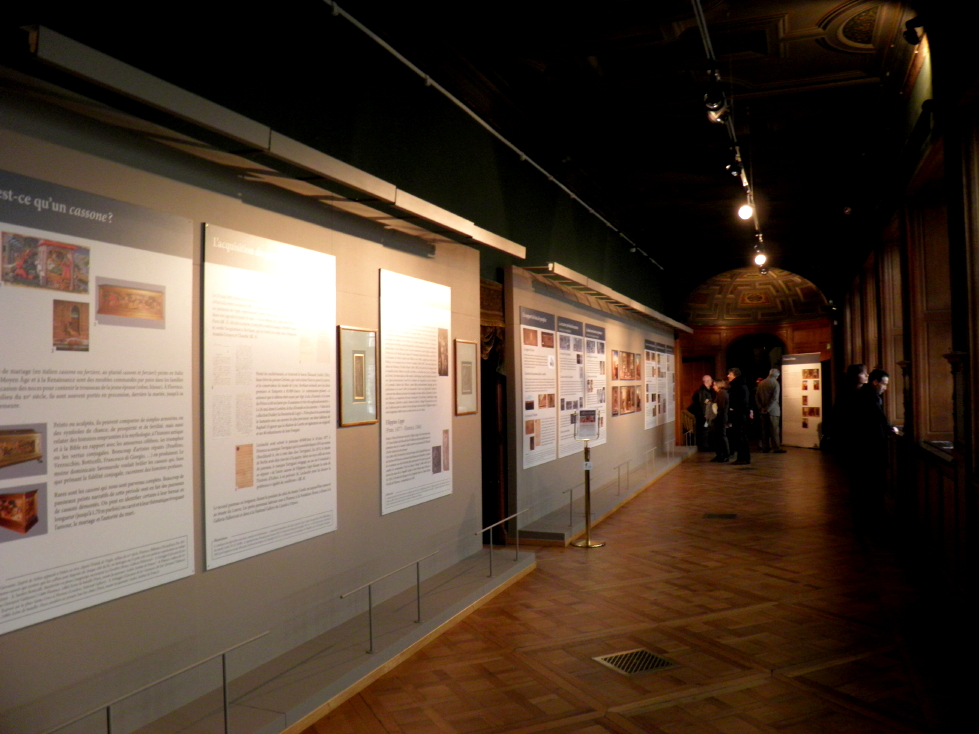 Temporary exhibition in the musée Condé on a cassone by Filippino Lippi. Psyche Gallery, château de Chantilly, France.